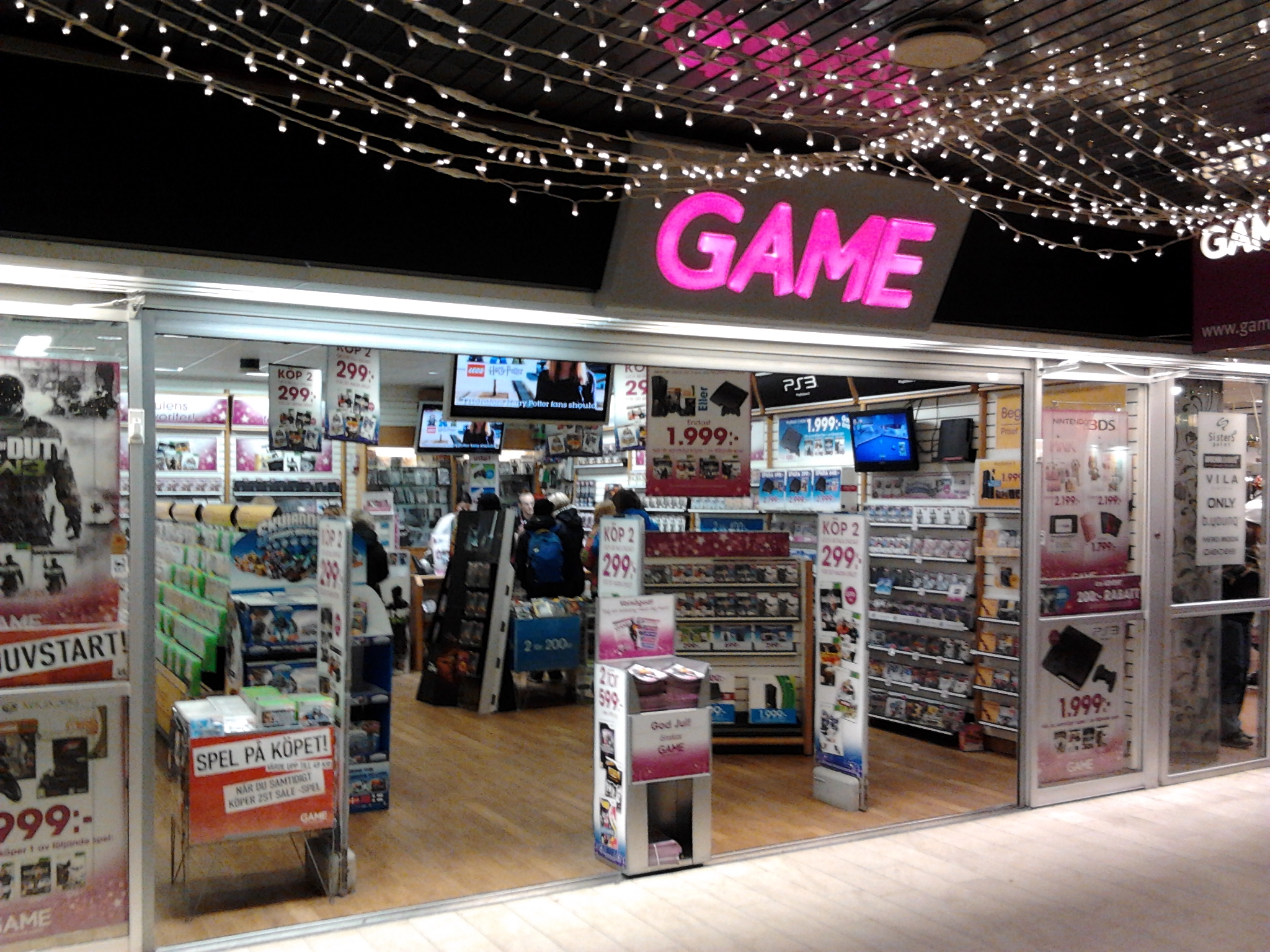 Gaming store "Game" in Umeå, Sweden.